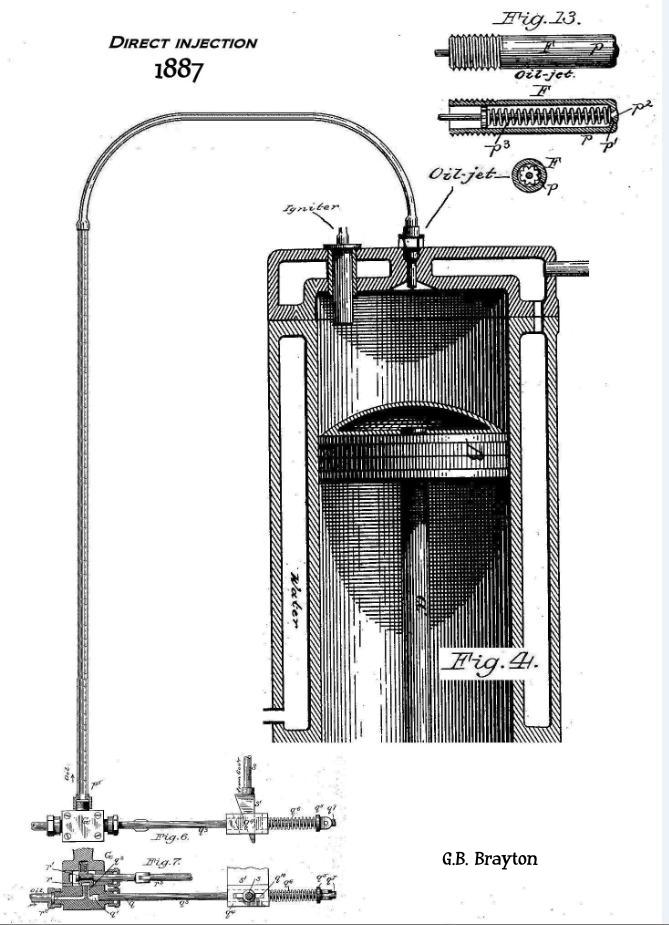 Brayton direct injecton 1887